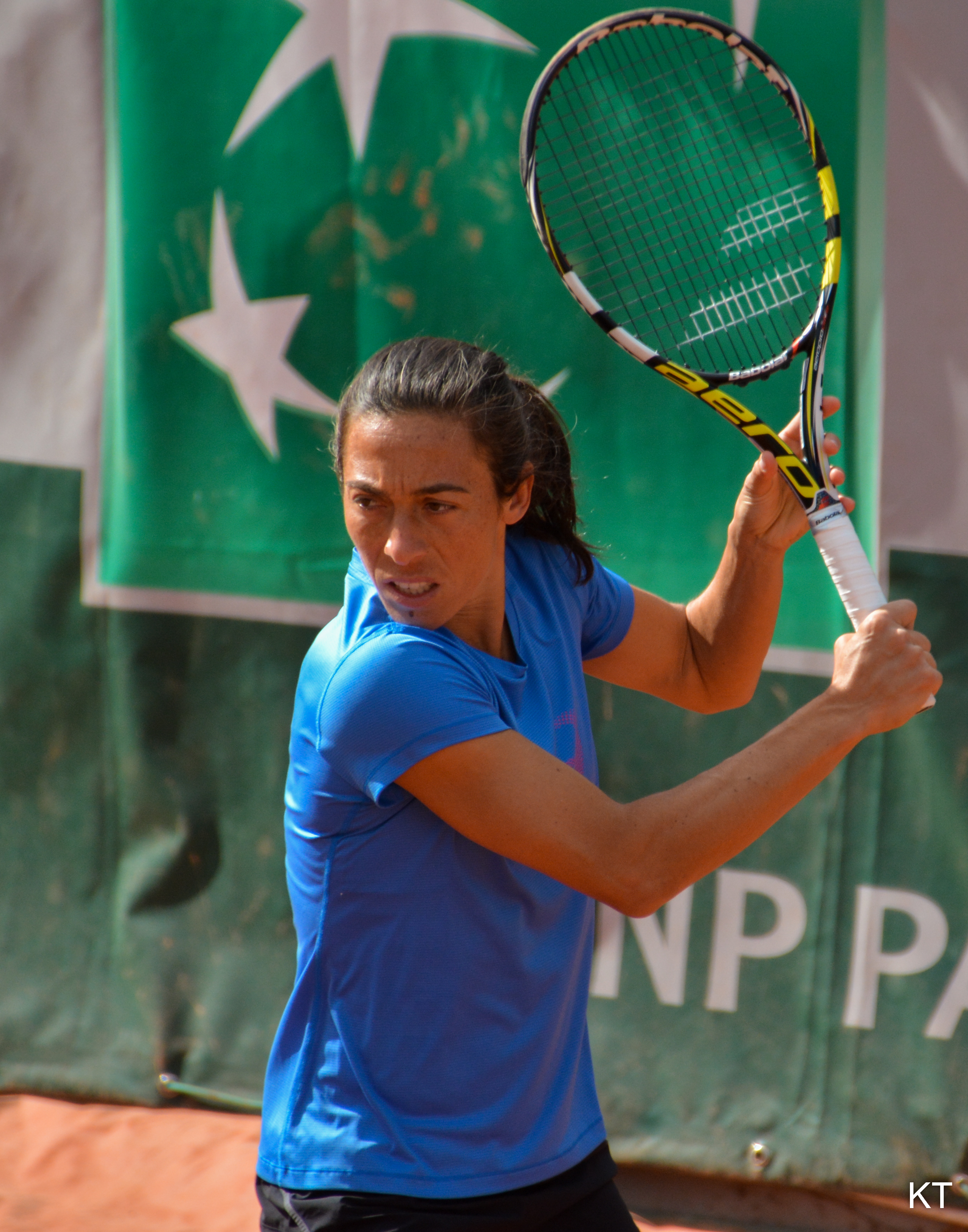 On the practice court. Day 3 of Roland Garros 2015.